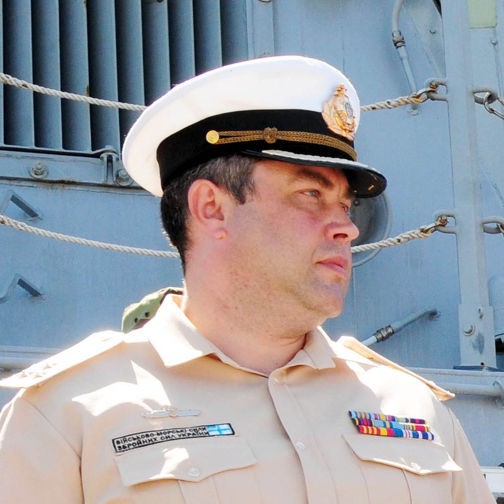 Rear-admiral Denis Berezovsky